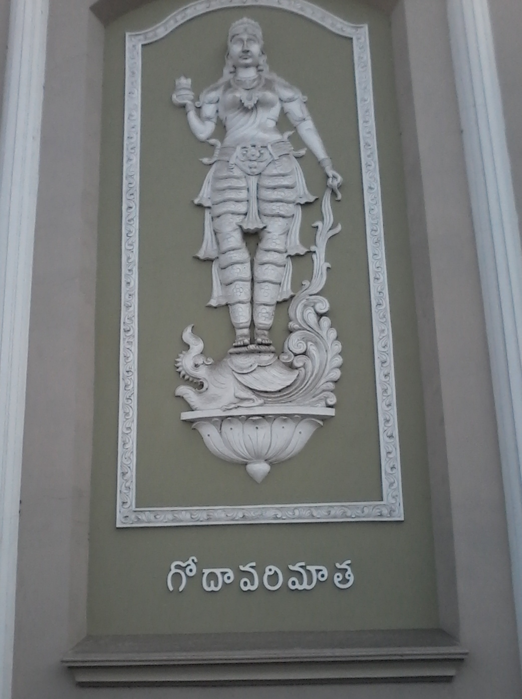 Statue of Mother Godavari at Rajahmundry Railway station